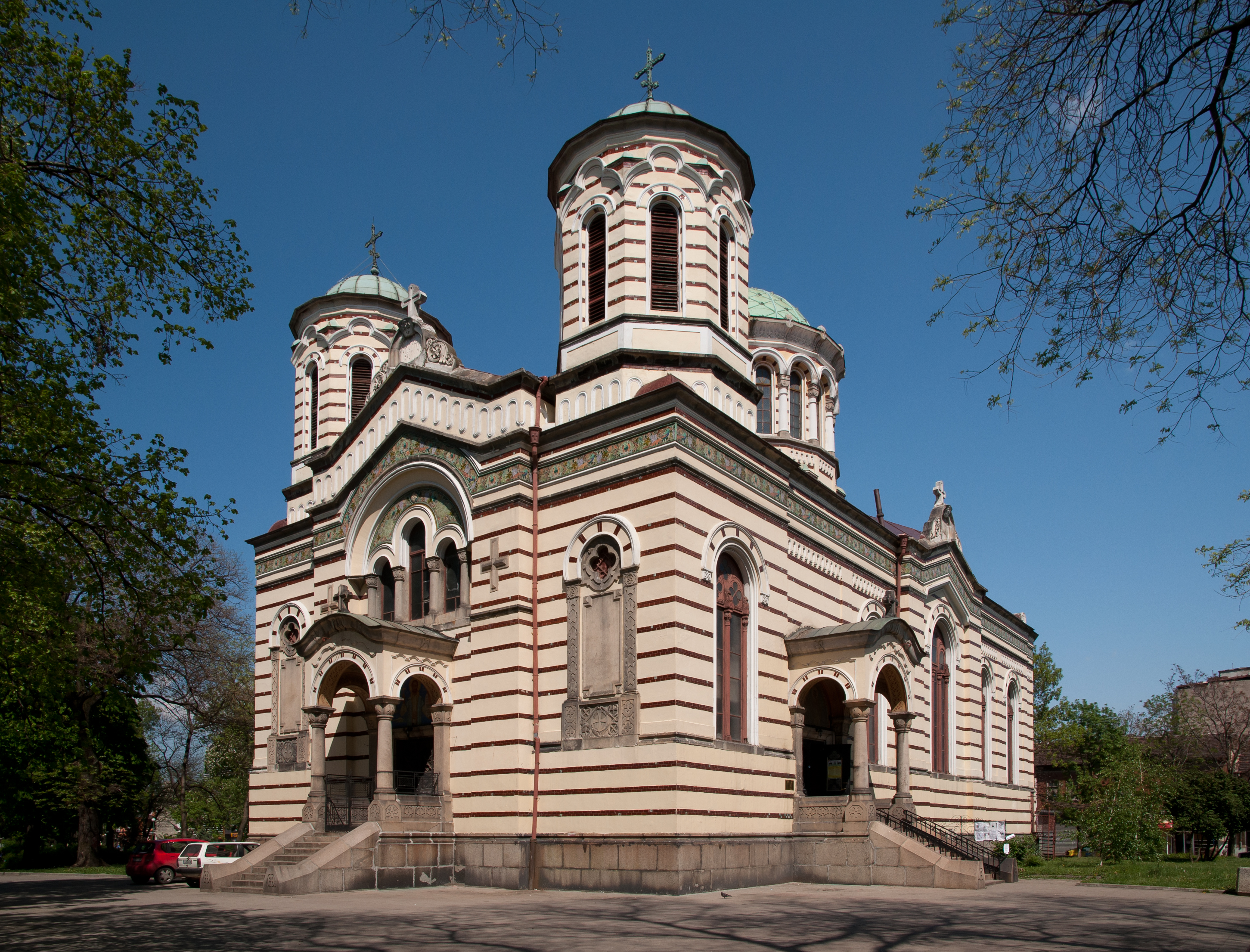 St. Nikolay Sofiyski church in Sofia, Bulgaria. Designed by the Bulgarian architect Anton Tornyov, consecrated in 1900 by Parteniy metropoliten of Sofia.